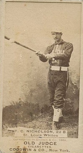 1888 Old Judge baseball card of Parson Nicholson